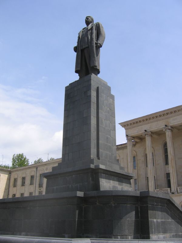 Stalin statue in Gori